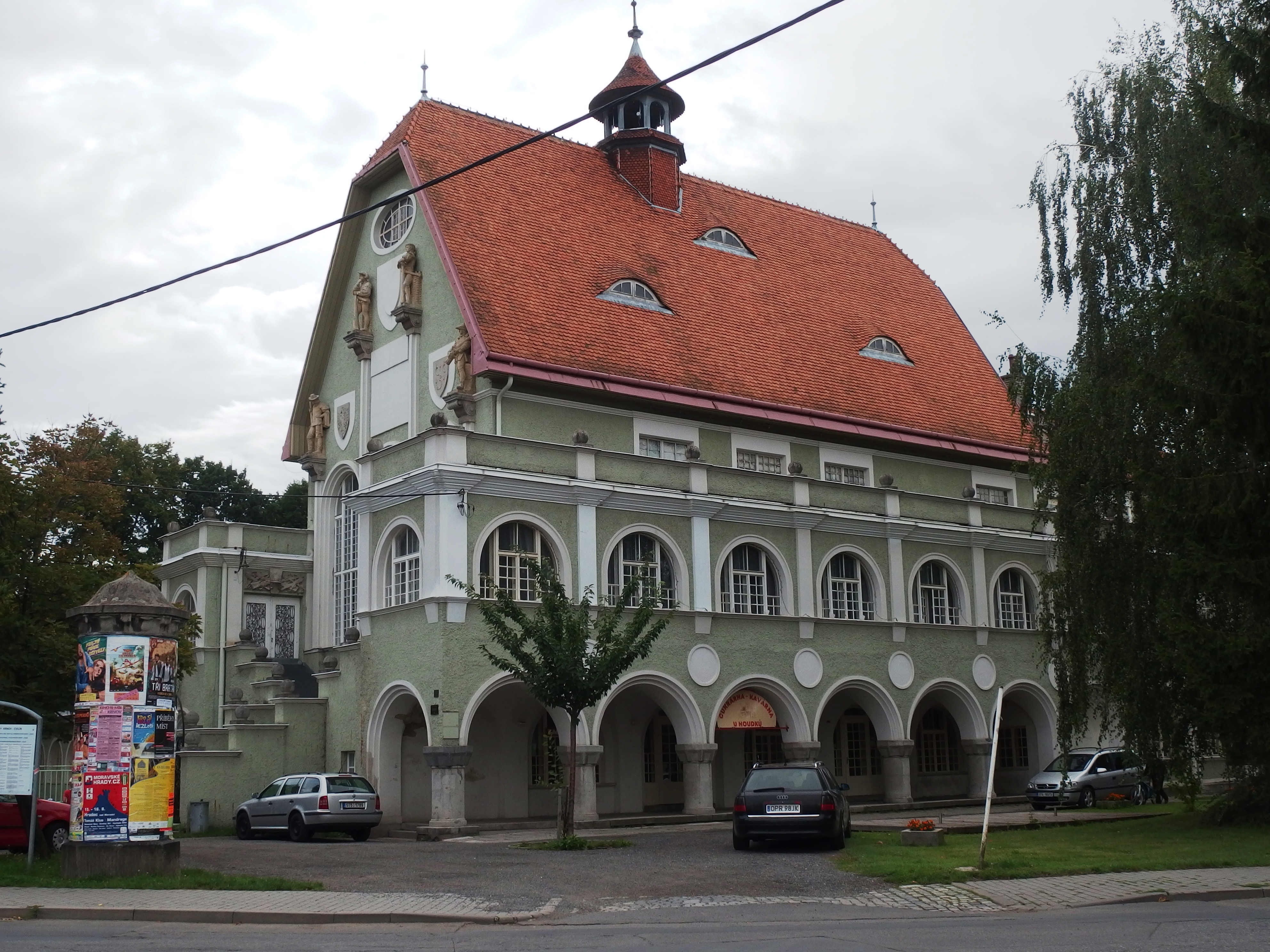 Krnov, Bruntál District, Czech Republic.